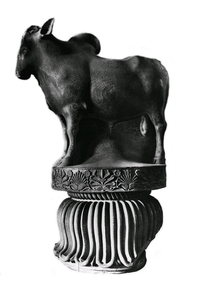 Rampurva bull black and white. Studio/July,49,A05c“ASOKAN BULL”Bull Capital of an Asokan pillar from Rampurva, Bihar. 3rd century B.C.